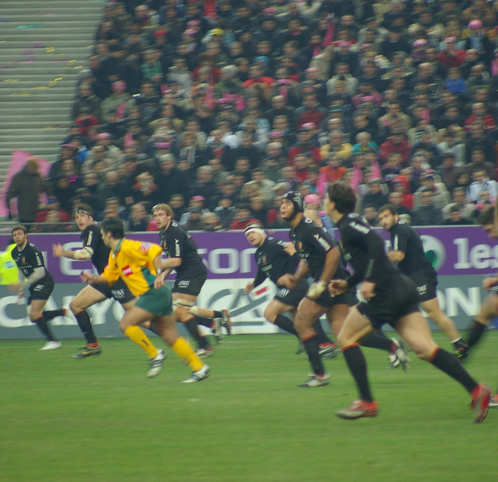 Pictures from the rugby game Stade Français vs Stade toulousain which took place in Stade de France, Paris, 27/01/2007.